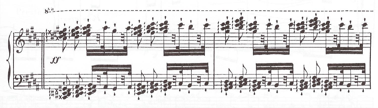 Extract from Chalres-Valentin Alkan's 'Esquisses', no. 45, published 1861 in Paris - scan from original